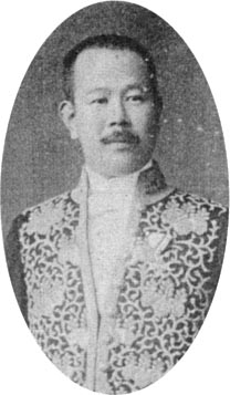 Kuniichi Tawara, Chief of Metallurgy Department of Koshu Gakko.